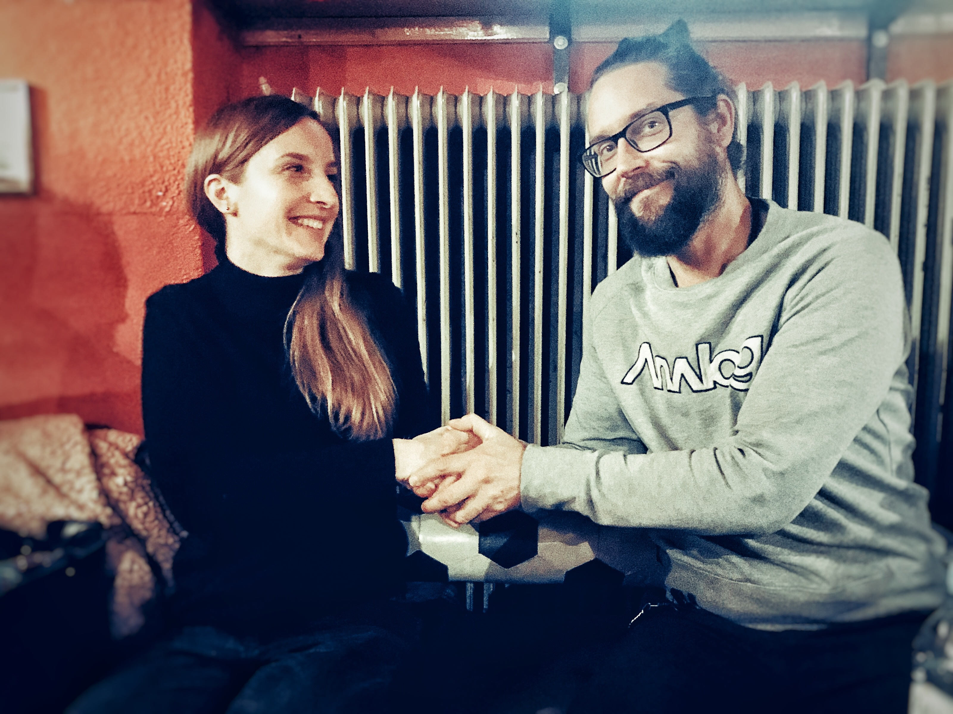 Na fotografiji sta Urša Menart in Miha Knific